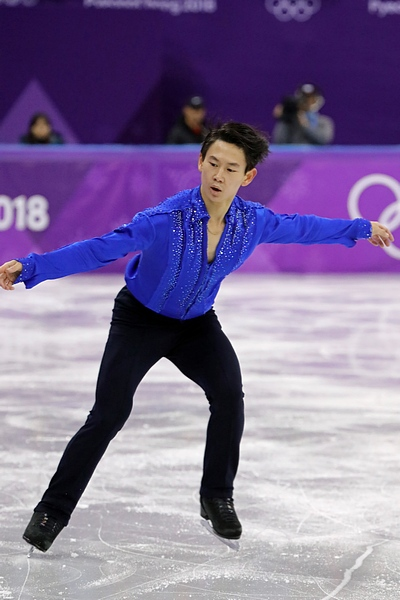 Denis Ten at the 2018 Winter Olympics